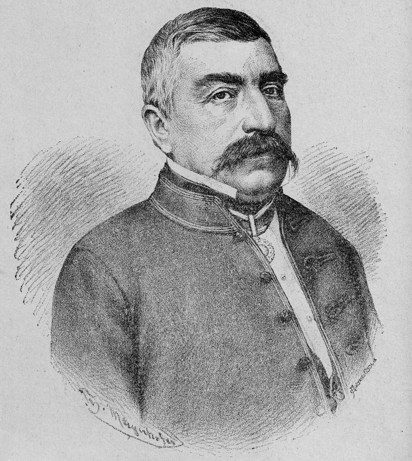 Atanasije Nikolić (1803-1882), Serbian professor and first rector of Lyceum in Belgrade, surveyor, engineer, enlightener and urban planner. Taken from Istorija srpske književnosti (1906) by Jovan Grčić. Srpski (latinica): Atanasije Nikolić (1803-1882), prosvetni i književni radnik, profesor i prvi rektor Liceja, geometar, inženjer, prosvetitelj i urbanista. Preuzeto iz Istorije srpske književnosti (1906) Jovana Grčića.